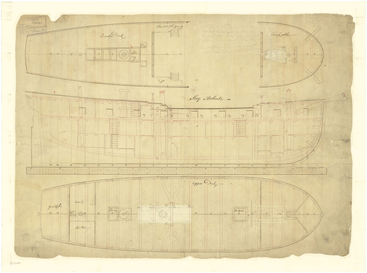 Atalanta (1775); Cygnet (1776); Hound (1776); Vulture (1776); Spy (1776); Hornet (1776); Alligator (1780). Scale: 1:48. Plan showing the quarterdeck, forecastle, inboard profile and upper deck for Atalanta (1775), a 14-gun Ship Sloop. The plan was reused later in 1774 for fitting the Cygnet (1776). It was copied in 1775 for Hound (1776), Vulture (1776), Spy (1776) and Hornet (1776), and finally copied again in 1779 for Alligator (1780) of the same class. ATALANTA 1775